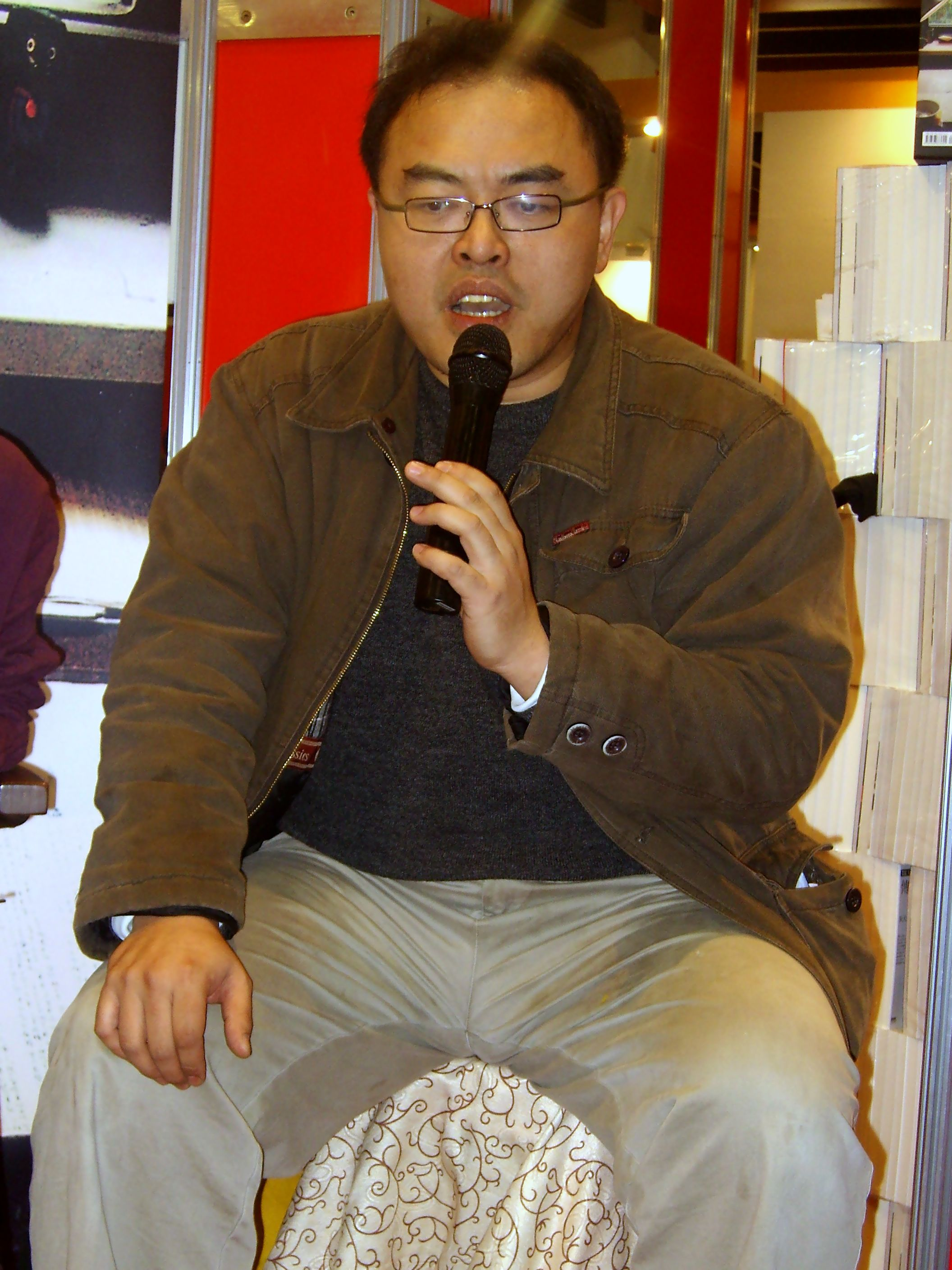 2008 Taipei International Book Exhibition - Hall 1: Yi-chun Lo in INK Publishing.